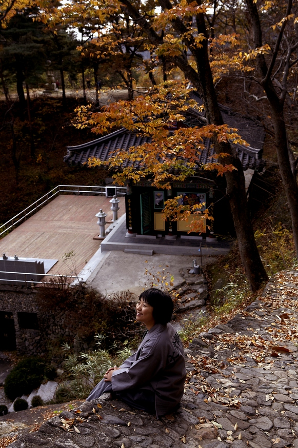 Golgul temple 2